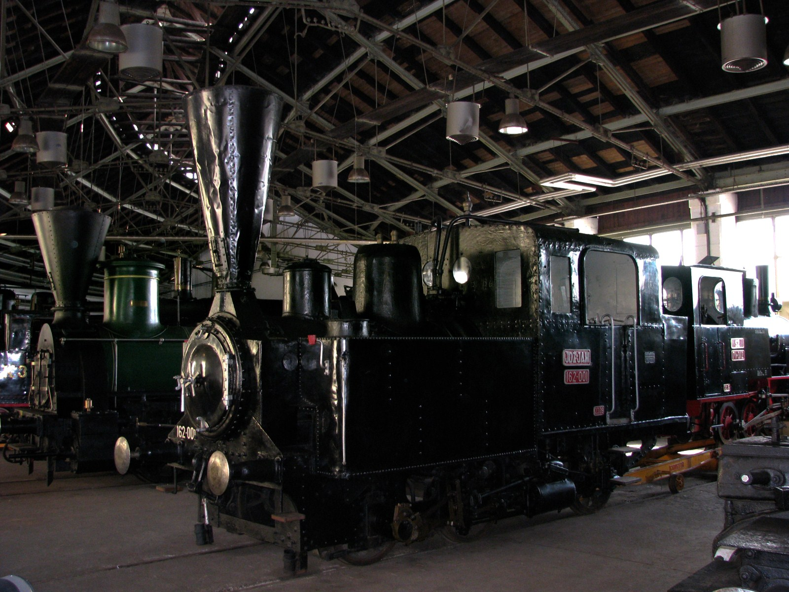 Locomotive for branch lines JDŽ 162-001 in Railway Museum of the Slovenian Railways